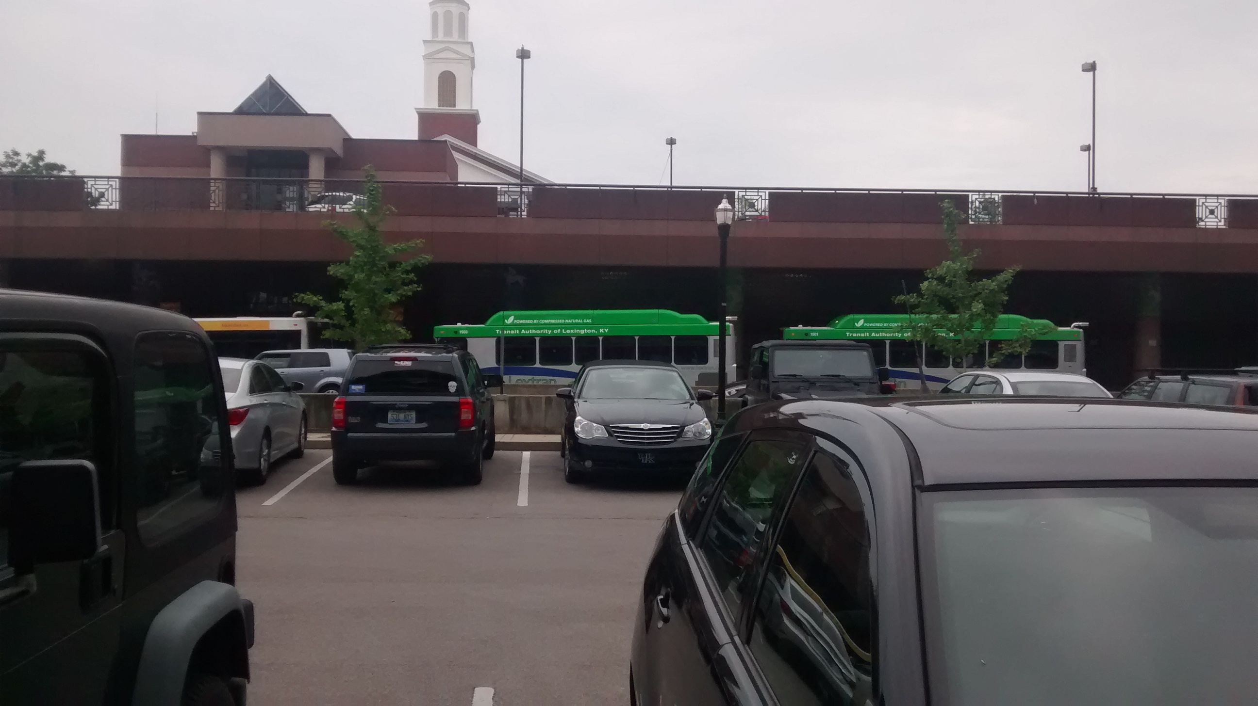 The first day of running the new Gillig CNG powered buses from Water Street.